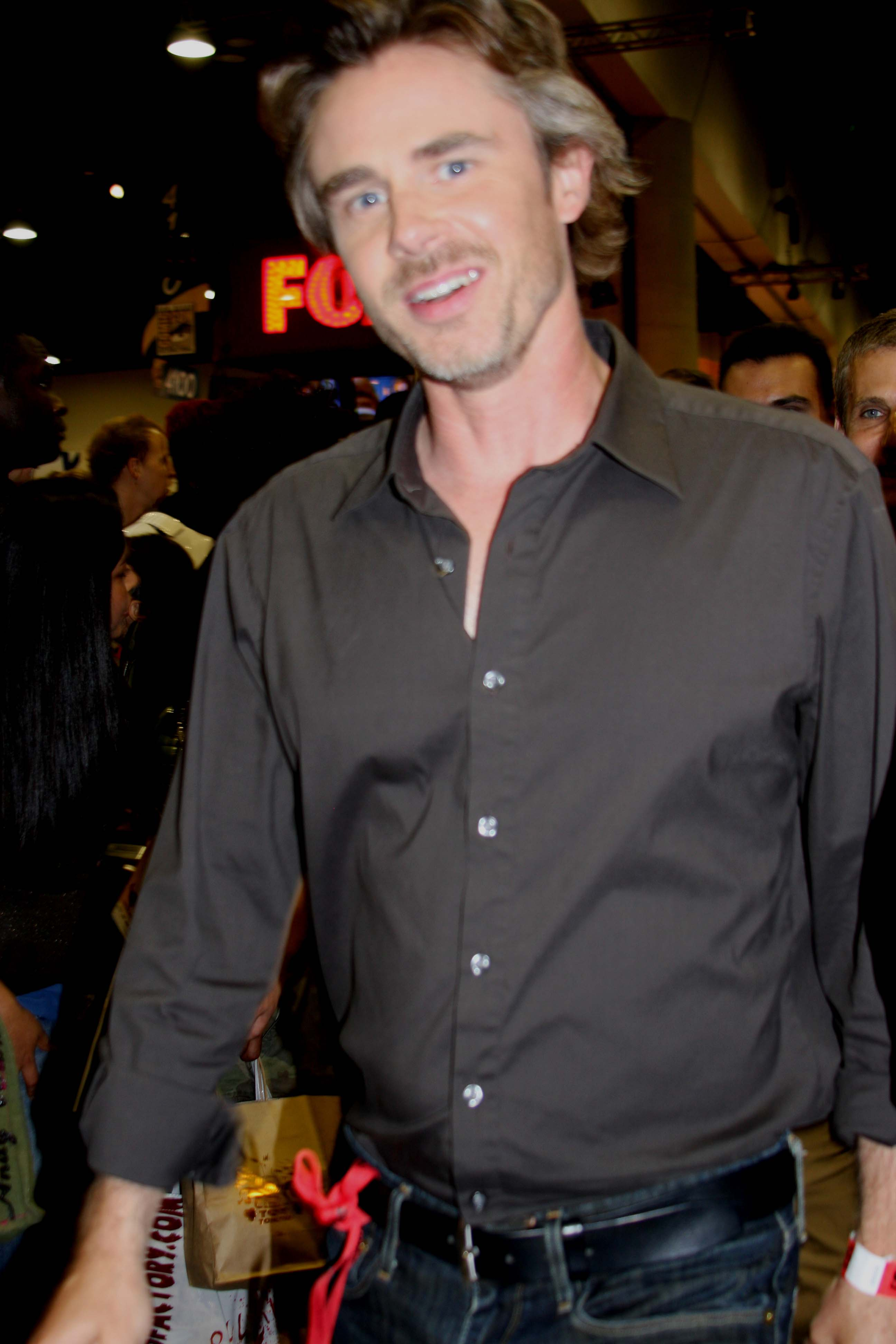 Sam Trammell at San Diego Comic-Con 2009